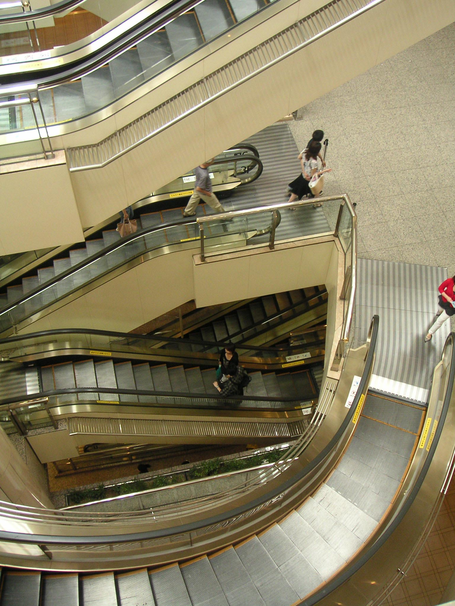 Various Escalators in Yokohama MinatoMirai 21. - Curving escalator was made in Japanese company.